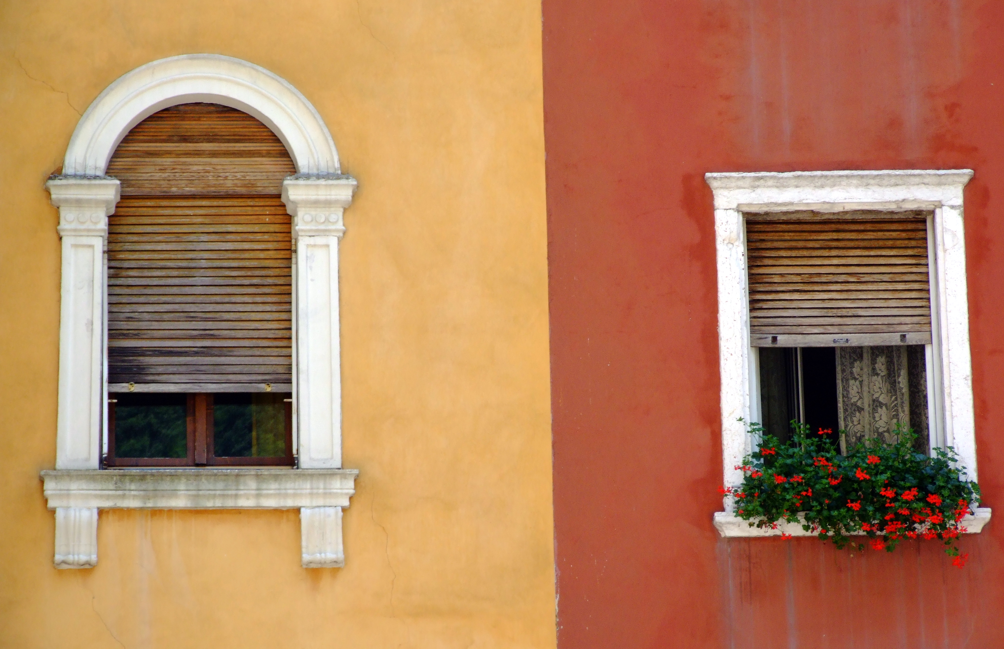 Another classic Italian sight of two contrasting wall colours side-by-side.